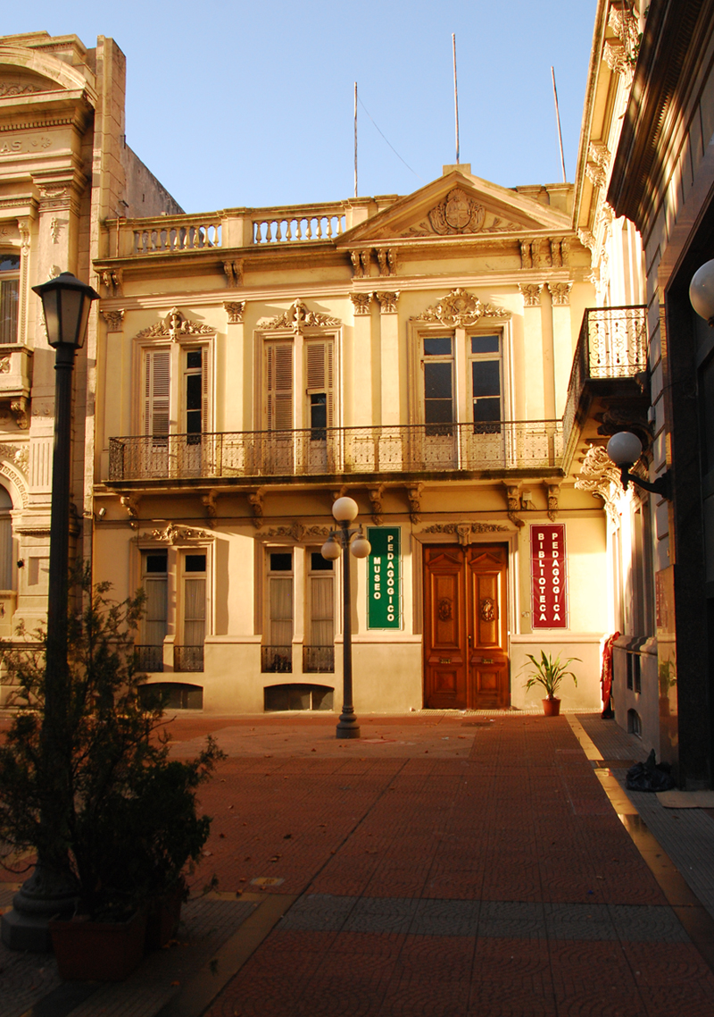 Pedagogical Museum, Montevideo, Uruguay.